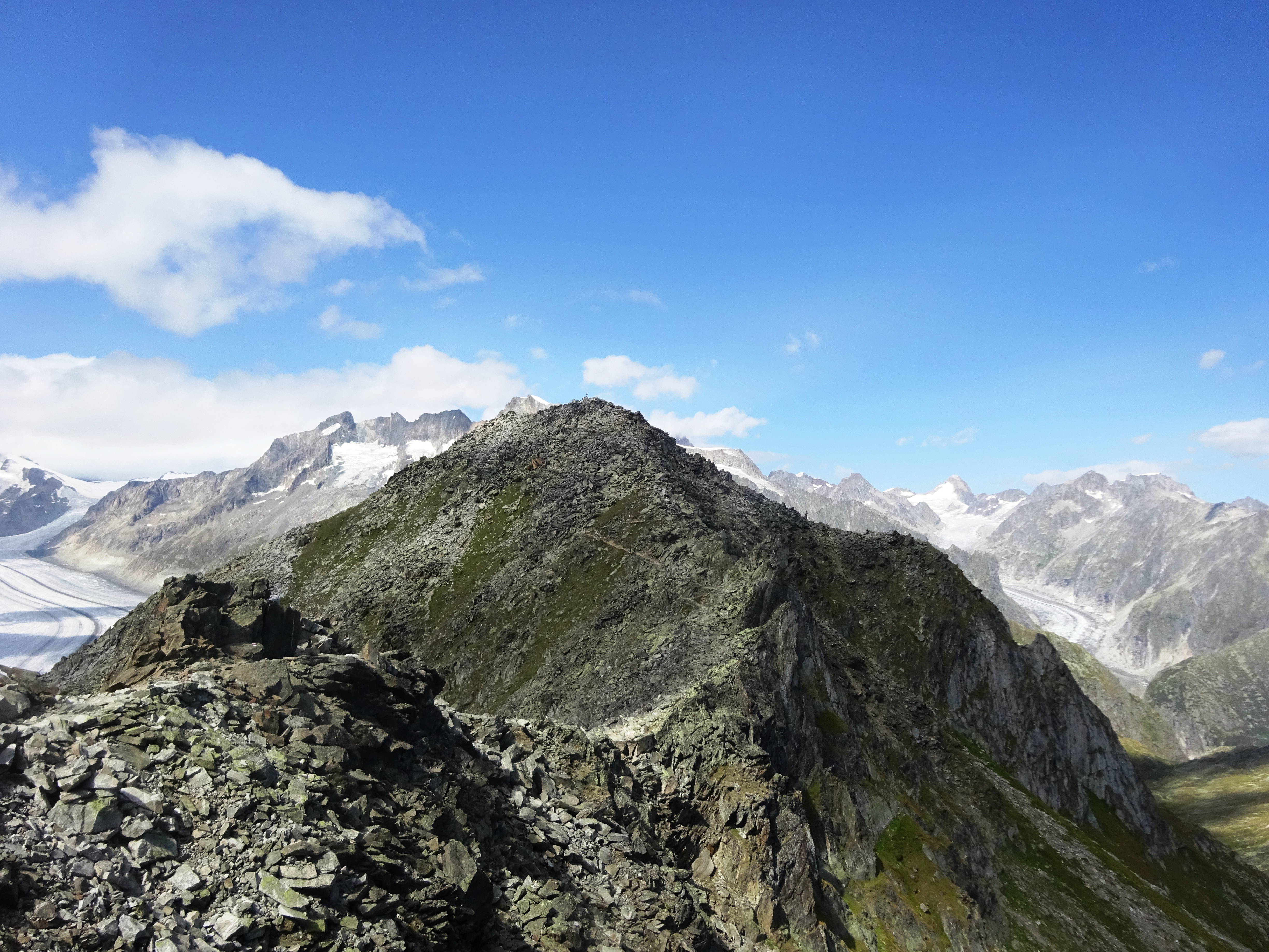 Photo taken near the summit station of Eggishorn aerial cableway; summit of Eggishorn in the centre; in the background from left to right: Großer Aletschgletscher, Wannenhorn; Fiescher Gletscher